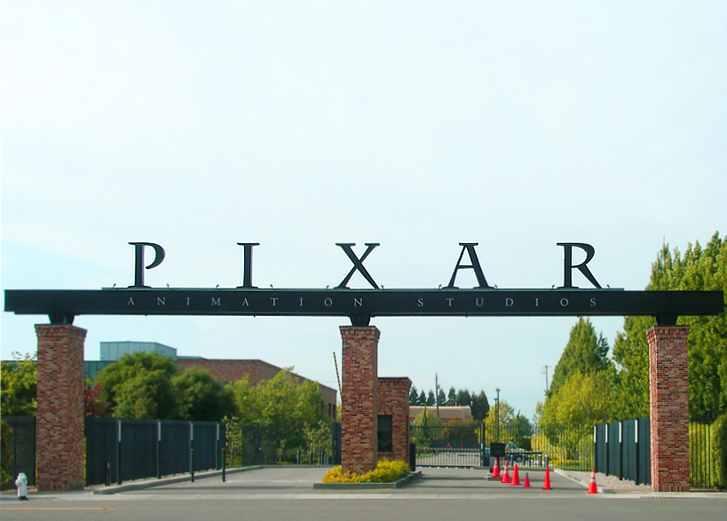 The entrance to Pixar's studio lot in Emeryville, California.